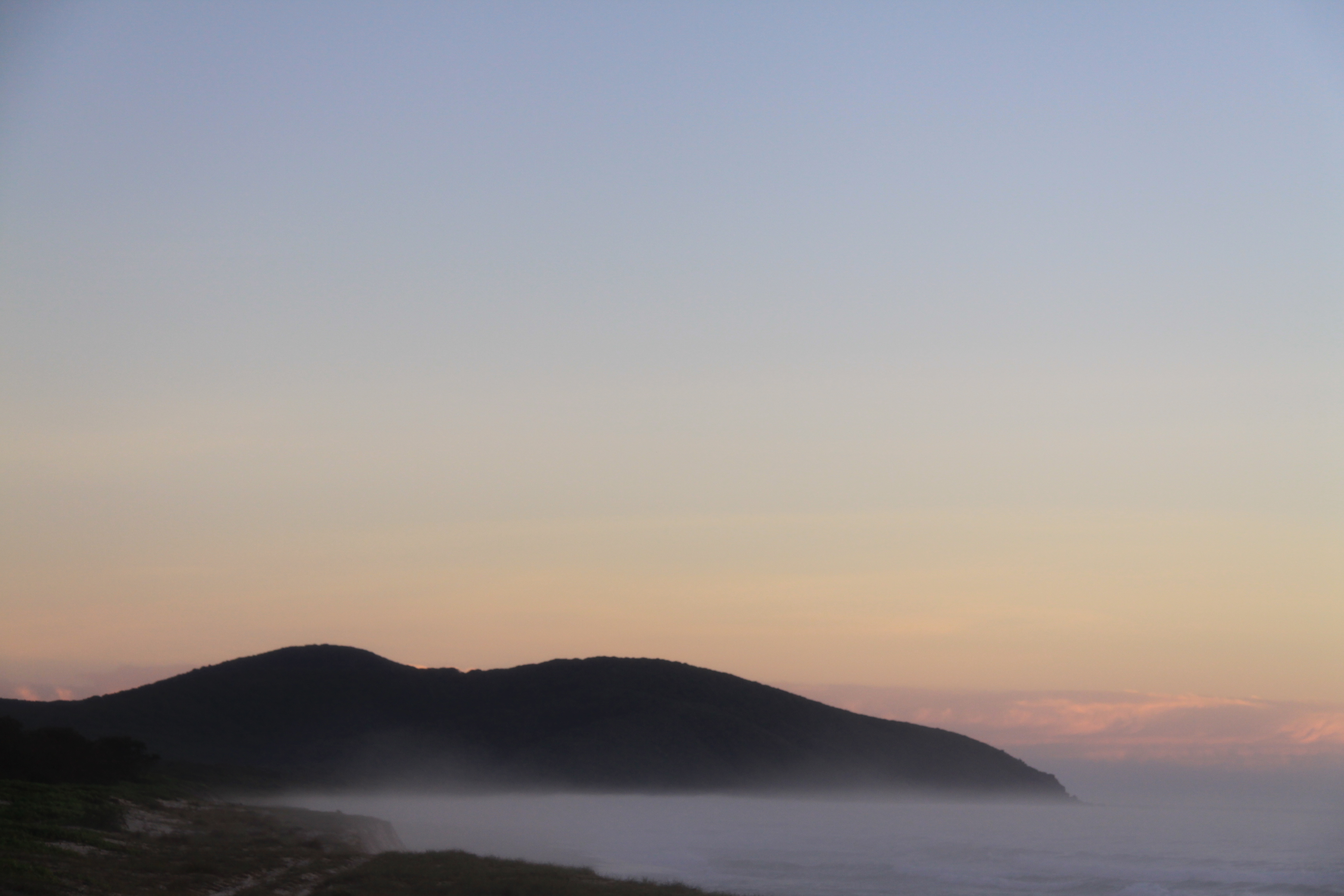 Cape Hawke through sea spray